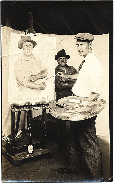 photograph of Gerrit Beneker painting in 1915